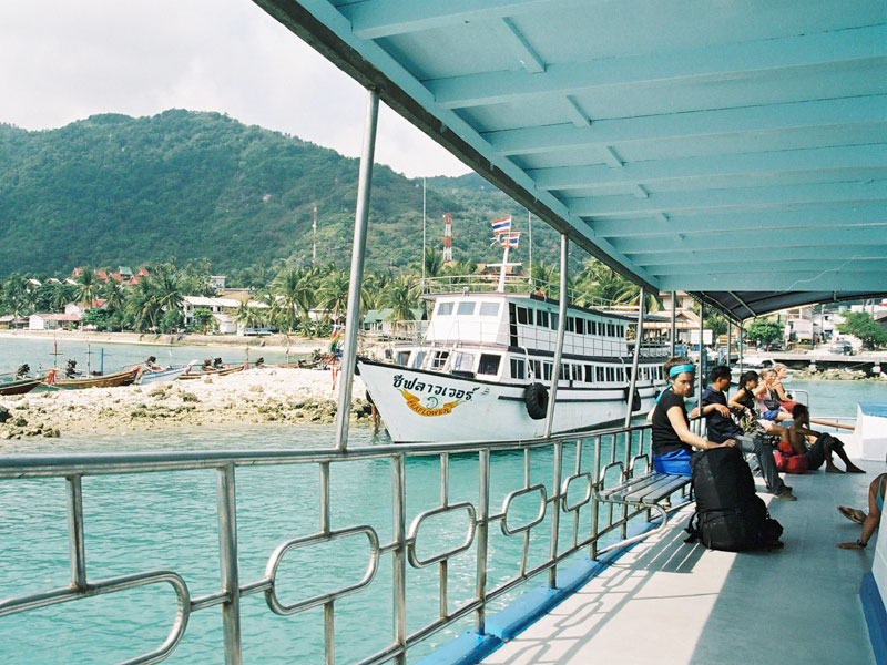 On board of the ferry ship "Haad Rin Queen", viewing of the similar "Seaflower" at the pier of Haad Rin on Koh Phangan. The ships travel between Koh Samui and Koh Phangan (Surat Thani province, Thailand)